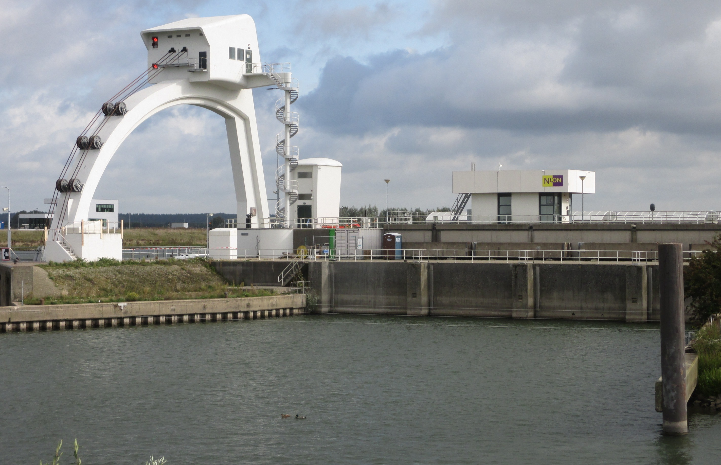 Hydro Powerplant Maurik (NL)